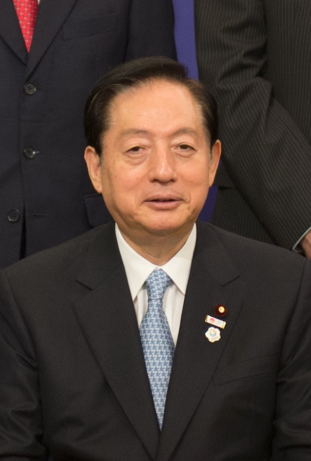 TOKYO, Japan (September 5, 2013) U.S. Deputy Secretary of Transportation John Porcari at APEC Ministerial Photo Session [State Department photo by William Ng/Public Domain] ((This is a modified version of original file, cropped to show subject))